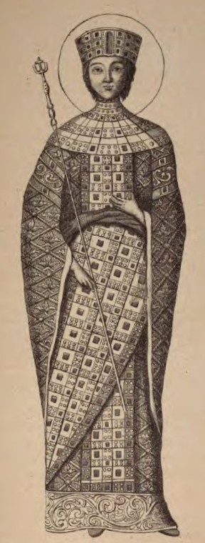 Historia tēs Hellados met' eikonōn apo tōn archaiotatōn chronōn mechri tēs basileias tou Othōnos (1898) Author: Spyridōn Paulou Lampros Publisher: Mpek Year: 1898 Possible copyright status: NOT_IN_COPYRIGHT Language: Greek Digitizing sponsor: Google Book contributor: unknown library Collection: americana